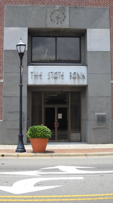 Intersection of East Cronly Street and McColl Road, Laurinburg, North Carolina.